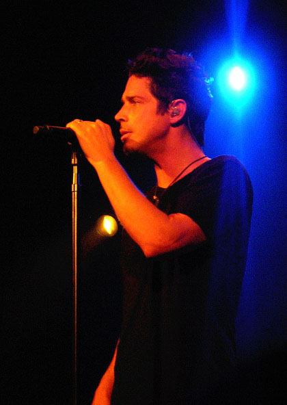 Chris Cornell performing live in Melkweg in Amsterdam, the Netherlands.